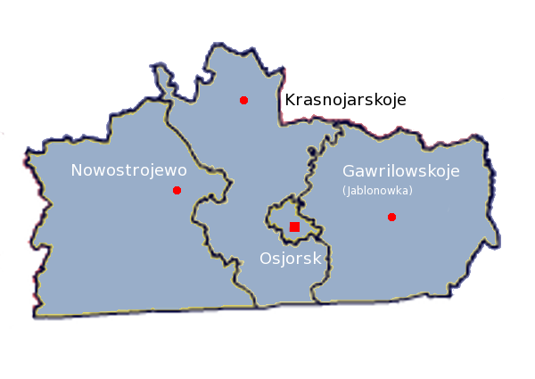 The administrational division of the Ozyorsky District in German transcription